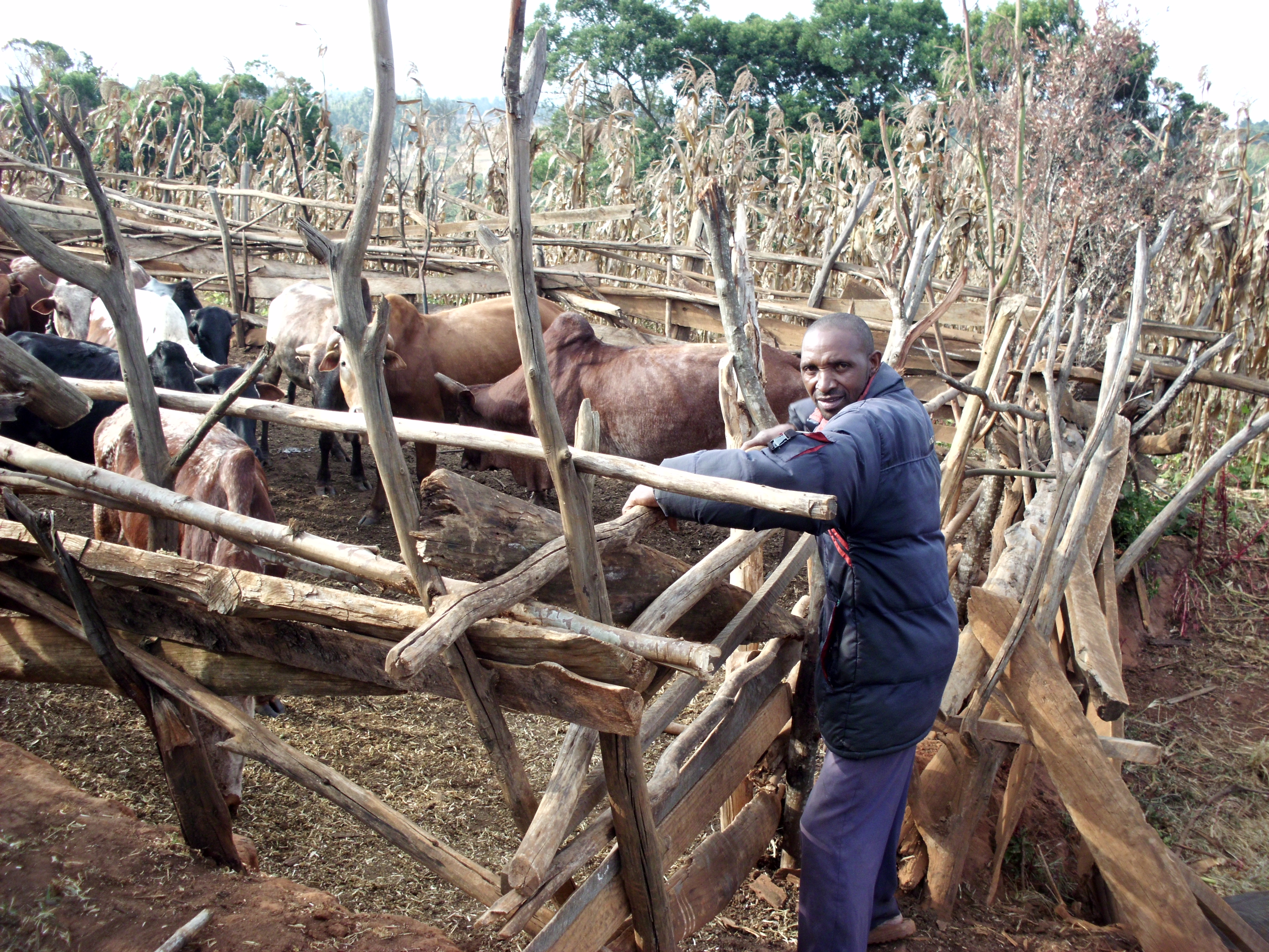 one of the activities done by people from kilolo district, at lukani village in iringa region in Tanzania This is an image of "African people at work" from Tanzania